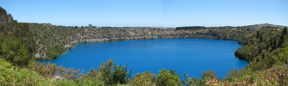 The Blue Lake, Mount Gambier, South Australia.